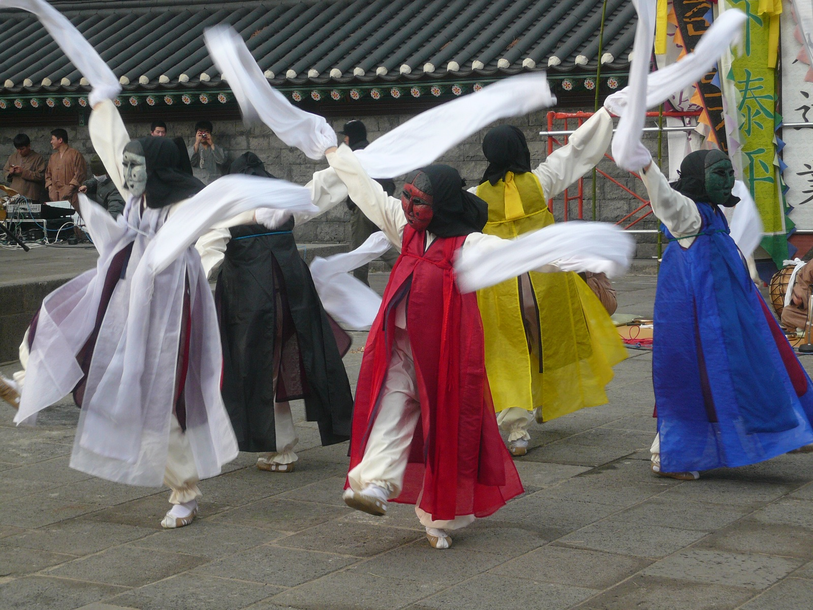 Obanggaksi chum (오방각시춤, literally "The dance of maidens from the five directions". Obang traditionally refers to east, west, north, south and center), a traditional dance of Jeju Island, Korea.